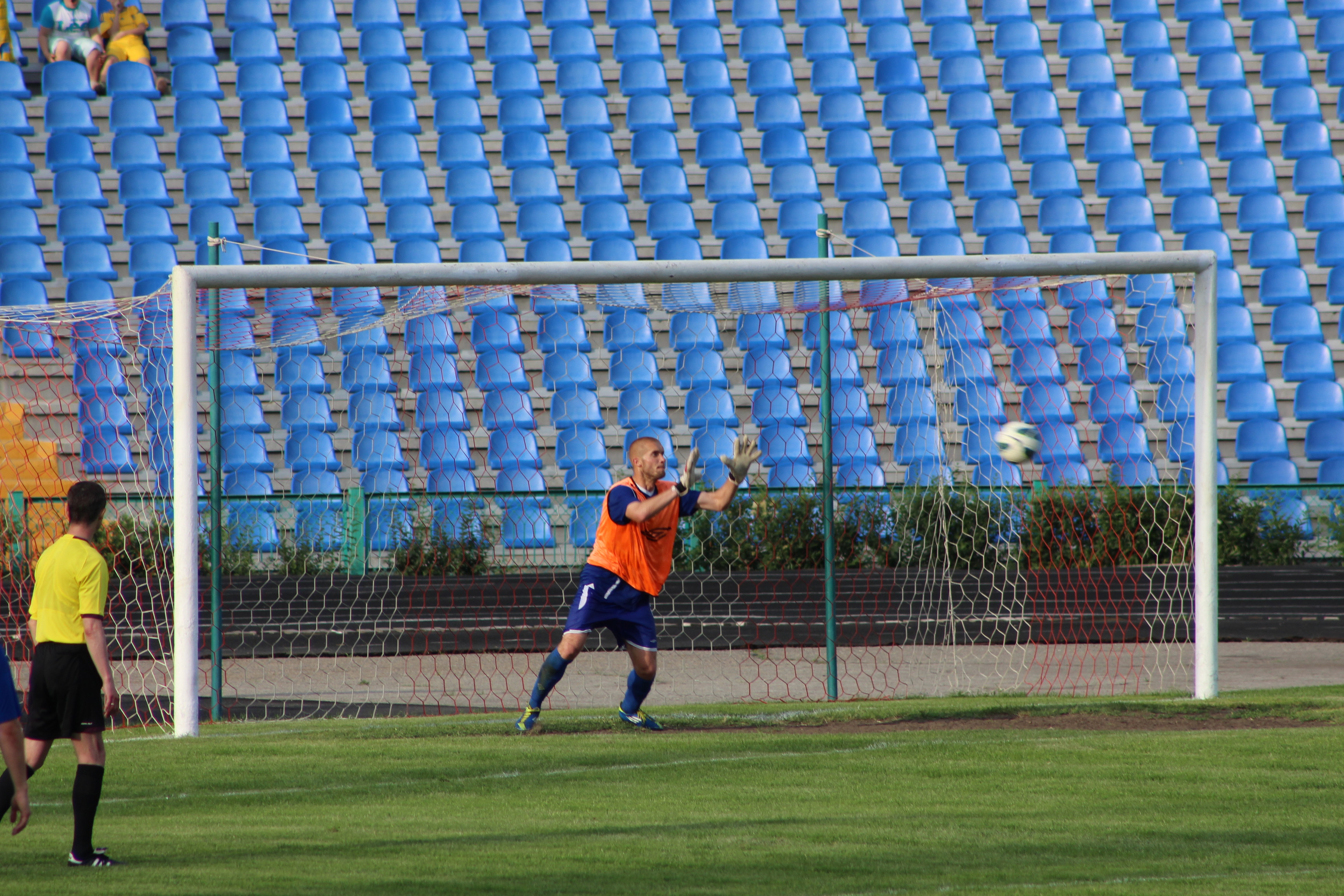 Vasyl Chornopiskiy